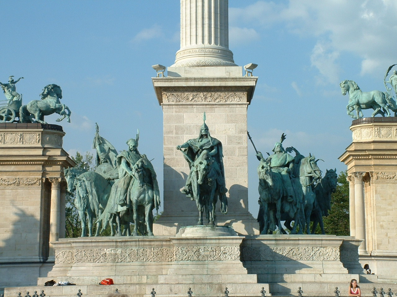 Heroes' Square (Budapest).